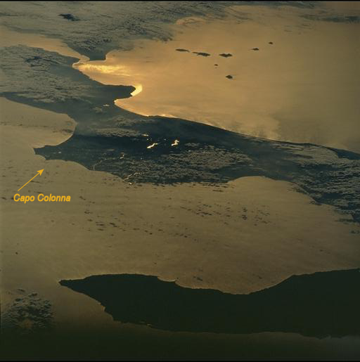 Capo Colonna in gulf of Taranto, Italy.